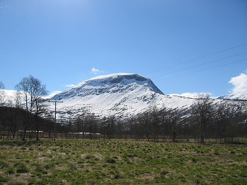 Satertind, the summit of Sjurfjellet